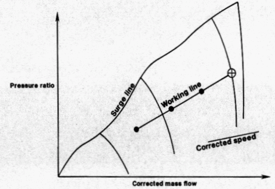 Typical compressor working line generated using Complex Off-design Calculation